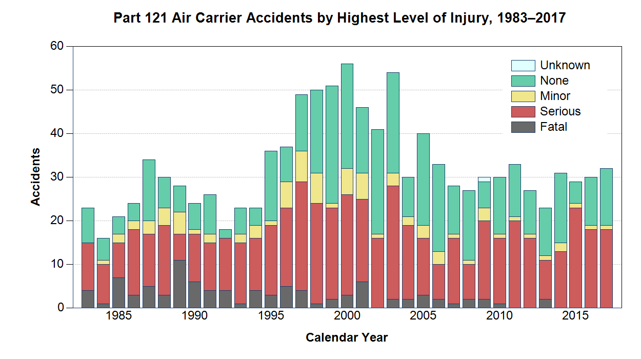 WASHINGTON (April 13, 2020) — The National Transportation Safety Board released Monday the 2020 update to its 2001 report, ‘Survivability of Accidents Involving Part 121 U.S. Air Carrier Operations, 1983 Through 2000.” The update discusses data from 1983 through 2017 detailing Part 121 flight activity, accidents and accident severity, occupant survivability and injury outcomes, and occupant survivability in serious accidents. This chart depicts air carrier accidents by highest level of injury from 1983 through 2017. (Graphic by NTSB)